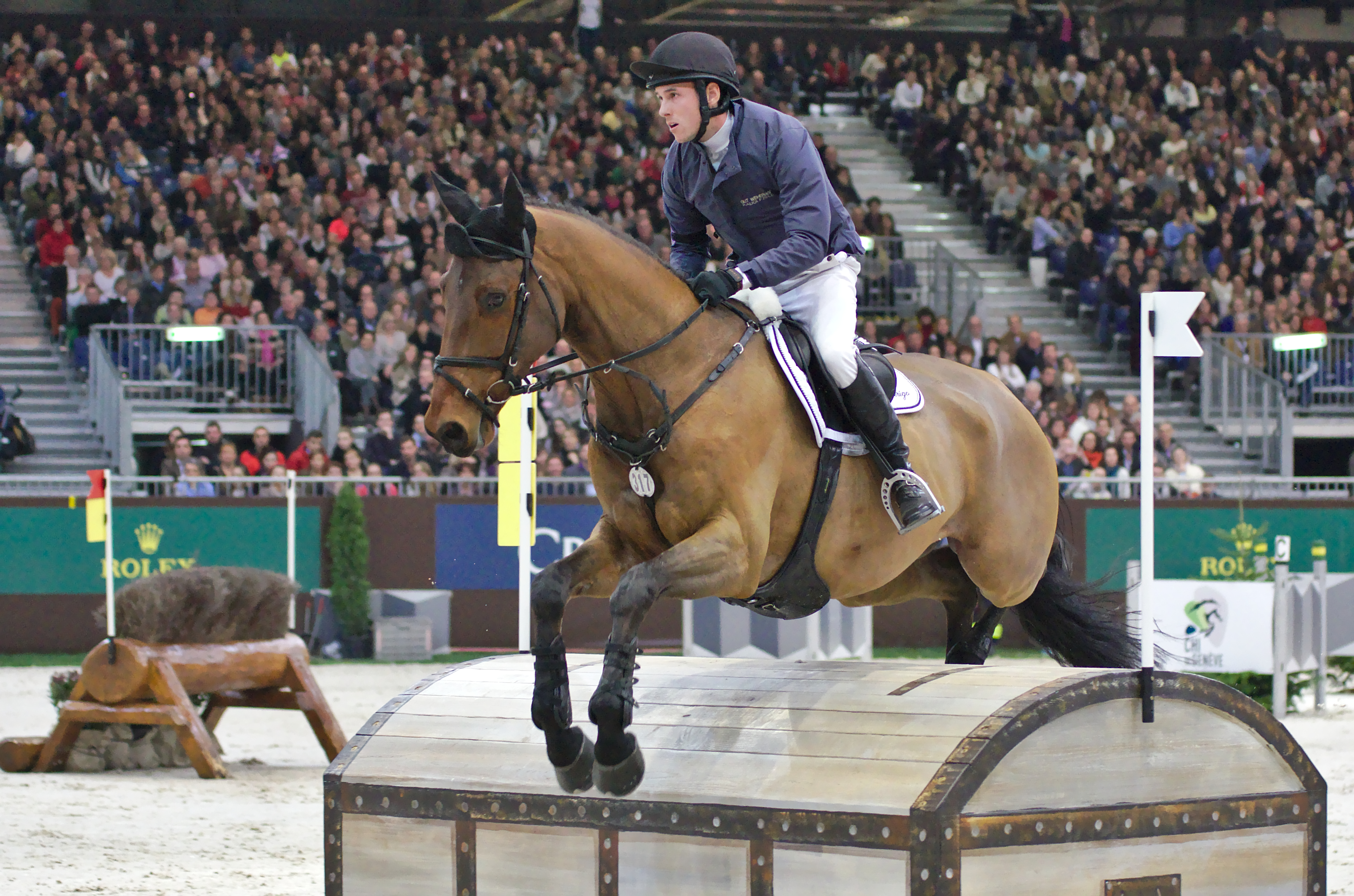 54eme CHI de Genève - 20141213 - Indoor Cross Country - Felix Vogg et Maverick Mcnamara